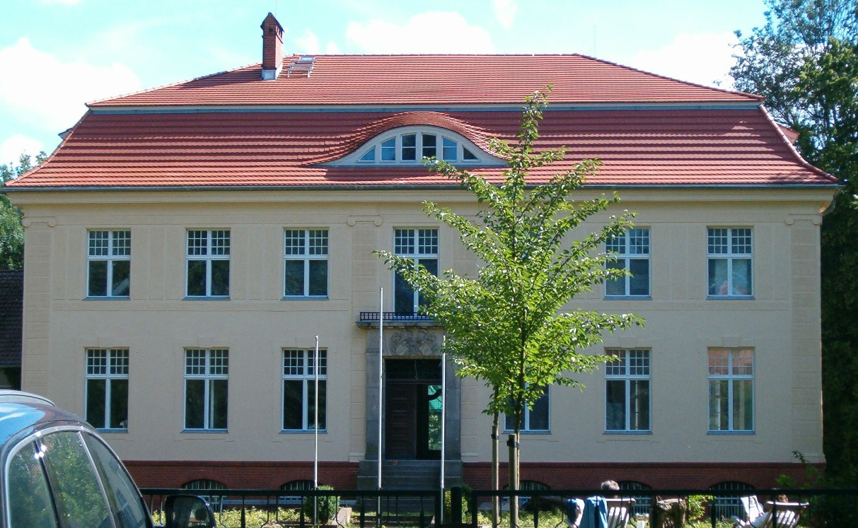 manor-house in Nackel in Brandenburg, Germany